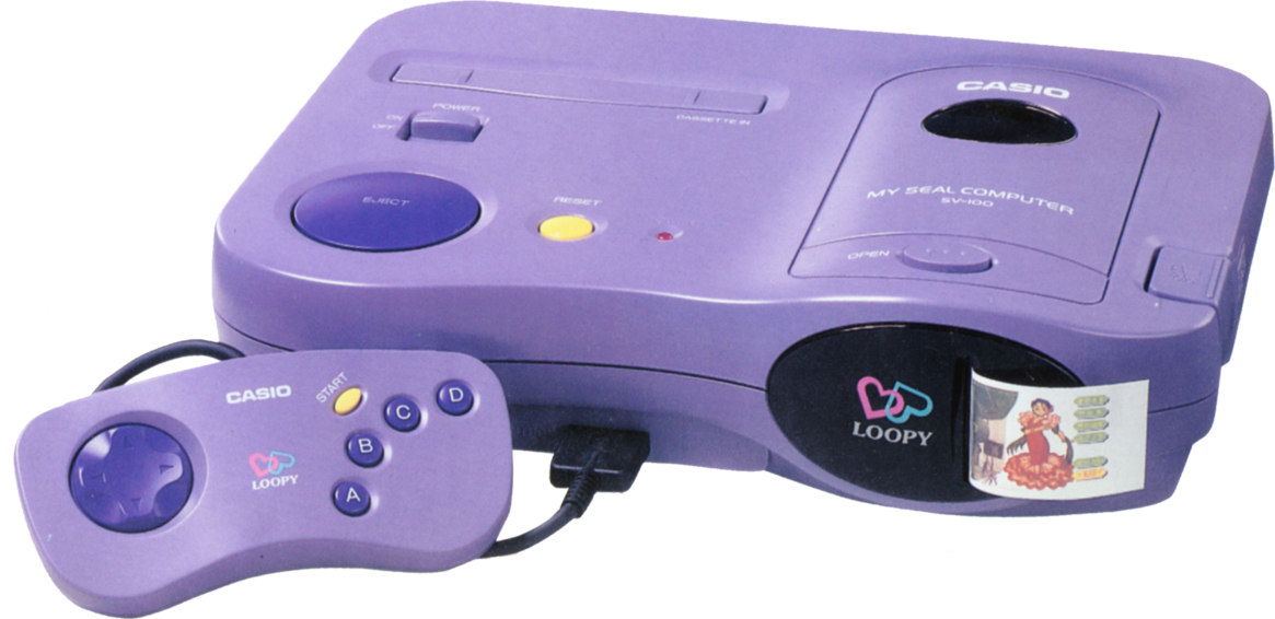 Casio Loopy My Seal Computer SV-100.